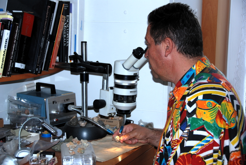 Study a micromount with a binocular